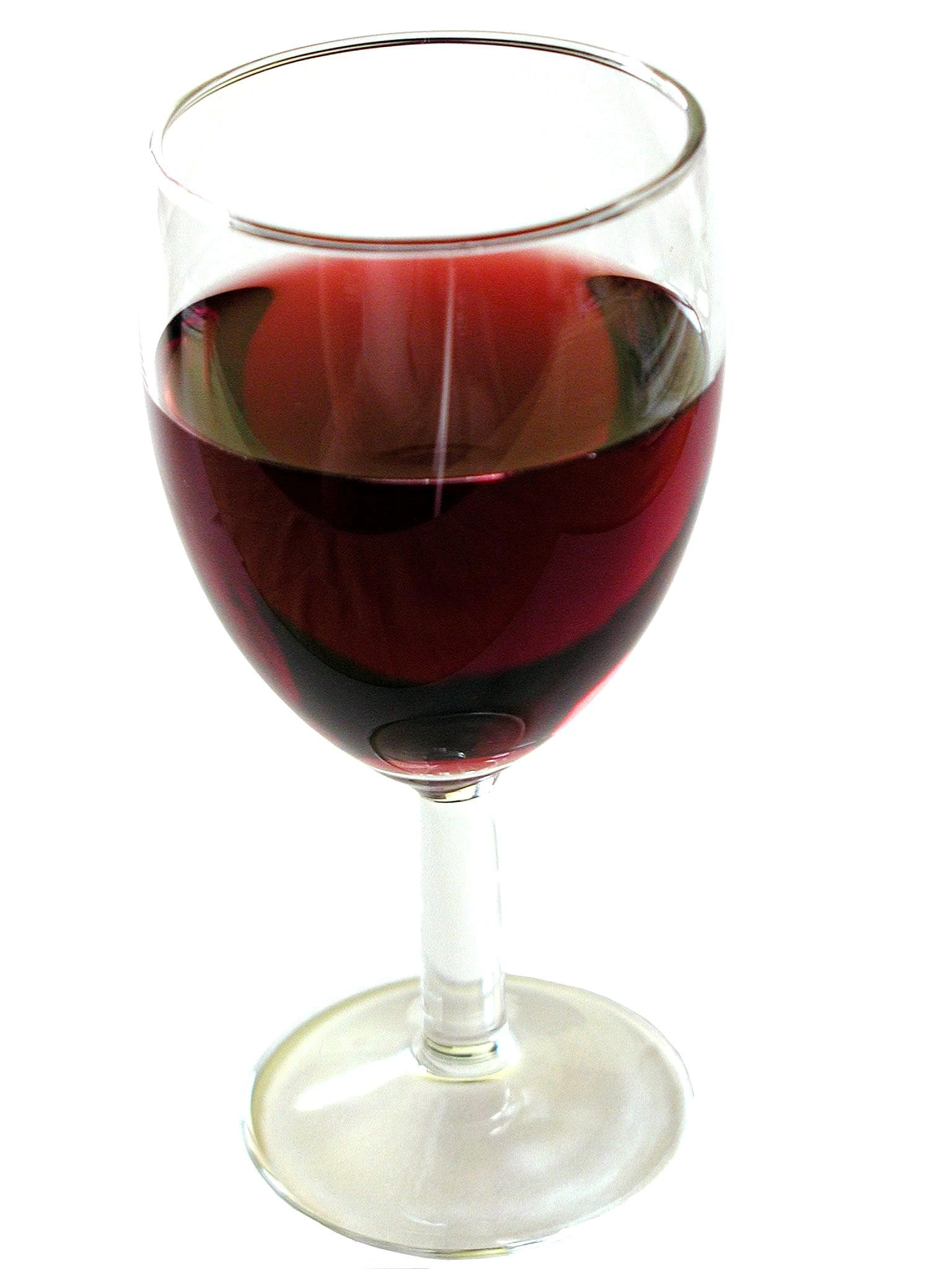 Image title: Glass wine white background Image from Public domain images website